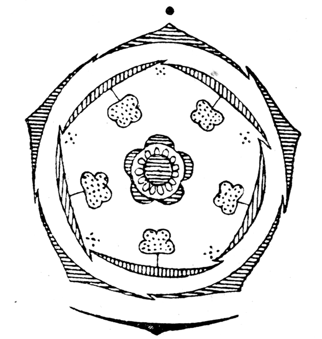 flower diagram of Primula